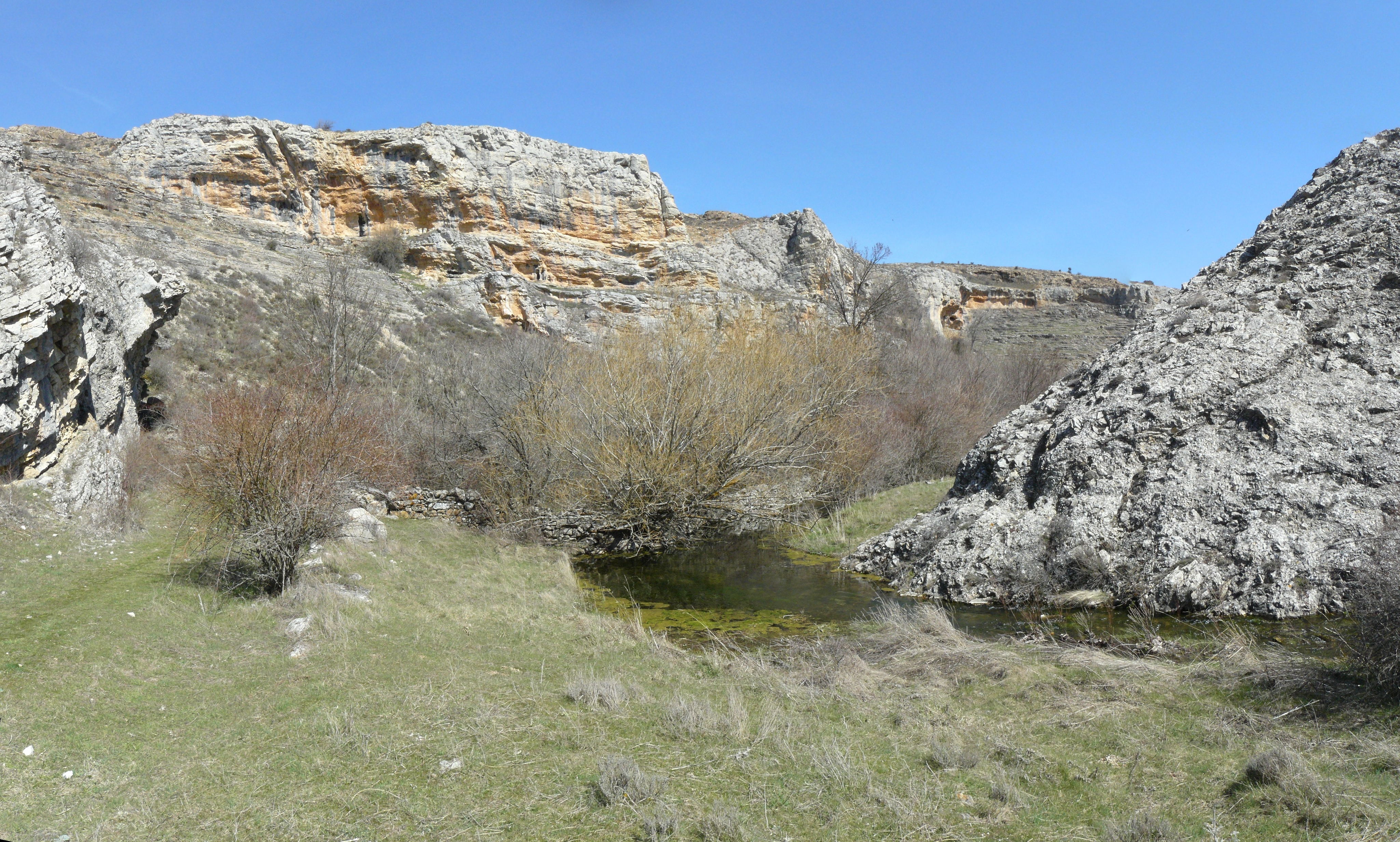 Gorge of the Talegones river (Soria, Spain).